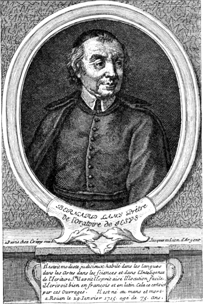 Portrait of Bernard Lamy (1640-1715), French Oratorian mathematician and theologian